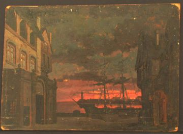 Description: The port of L'Havre. Set design for Act III of Manon Lescaut for the world premiere performance, Teatro Regio di Torino, 1 February 1893. Artist: Ugo Gheduzzi (Italian, 1853-1925) Provenance: Archivio Ricordi Milano